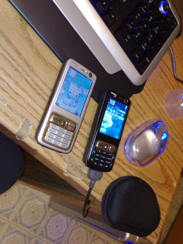 N73 Simple and N73 Music Edition